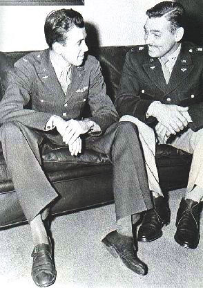 Lt. Col. James T. Stewart & Major Clark Gable - RAF Polebrook, 1943 Source: USAAF